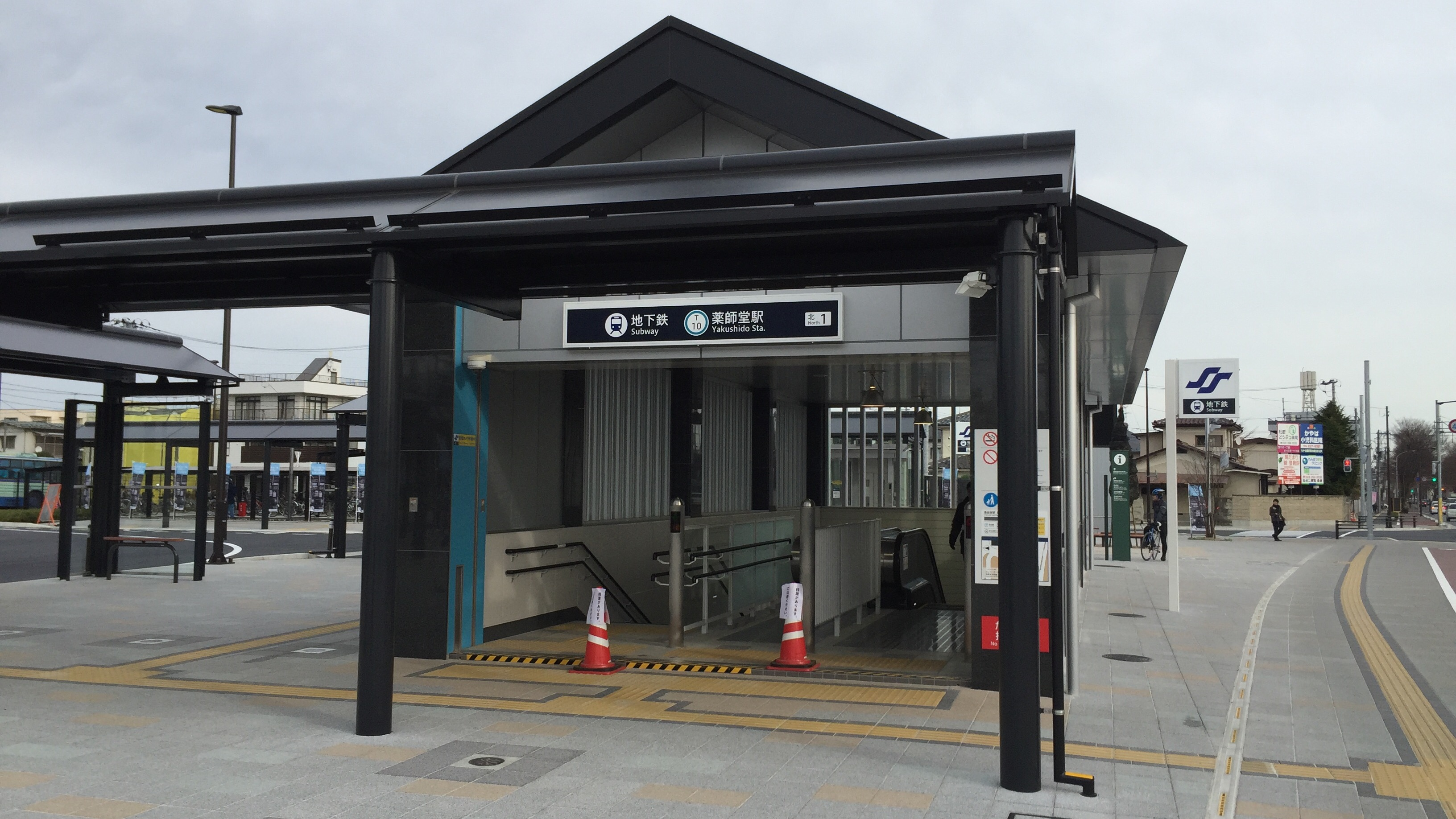 The "North 1" entrance to Yakushido Station on the Sendai Subway Tozai Line in Sendai, Japan